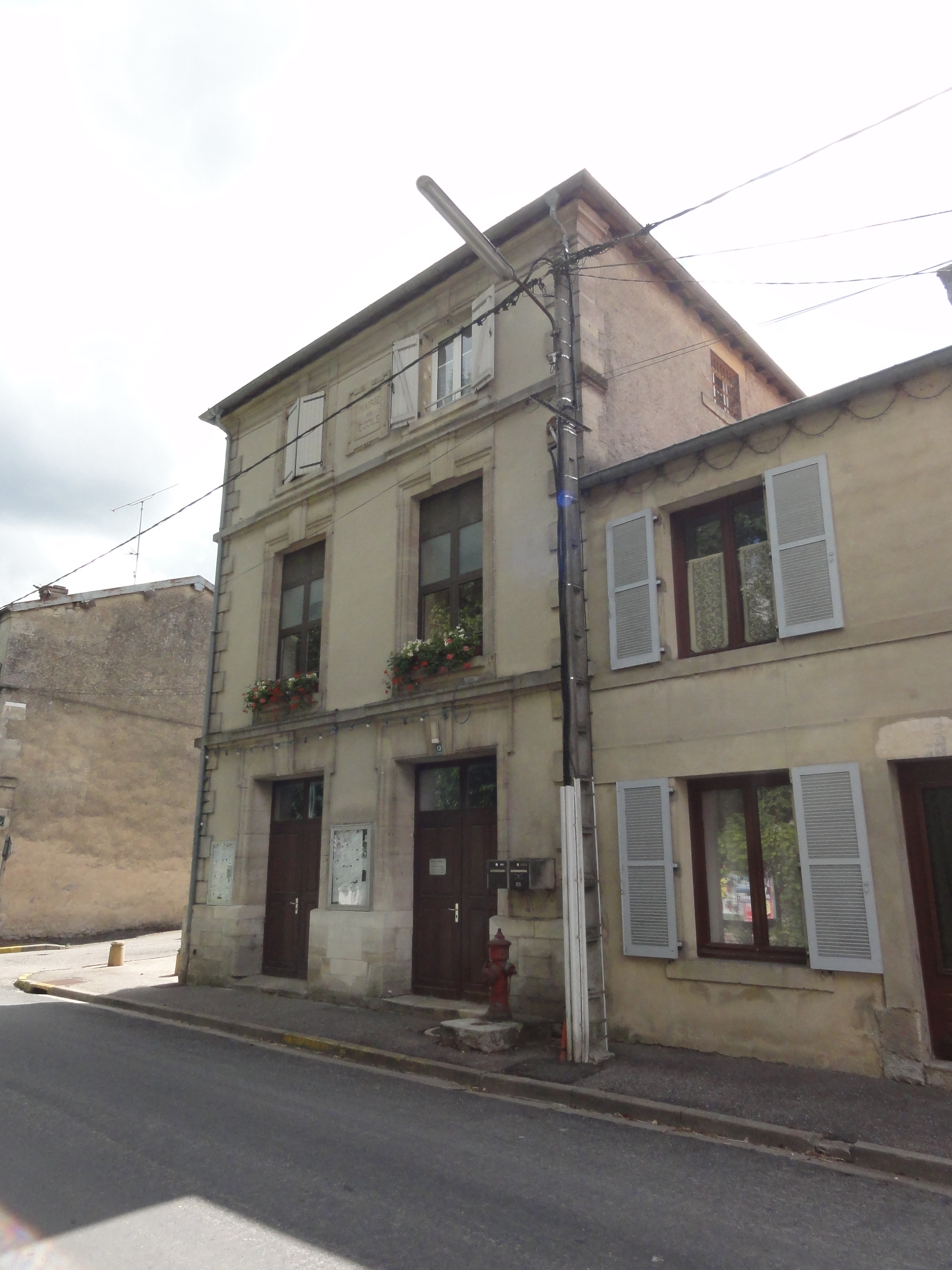 Guerpont (Meuse) mairie-école